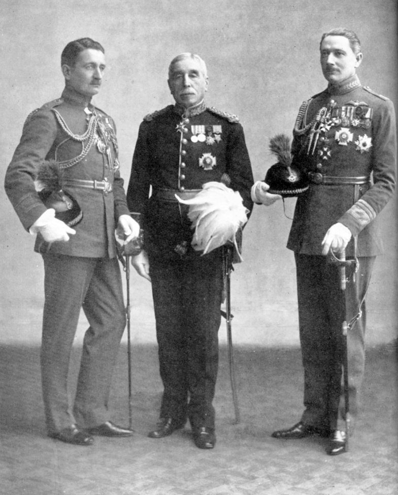 Photograph of Major General Sir William Salmond with his sons Air Vice-Marshal Sir Geoffrey Salmond (shown left) and Air Marshal Sir John Salmond (shown right). All three are wearing full dress. Taken after a levée.